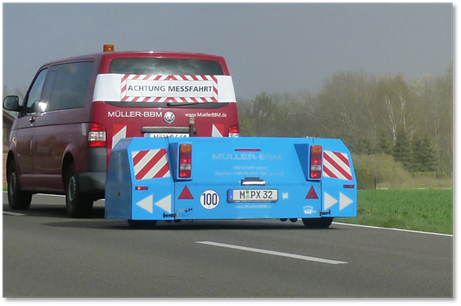 This is a CPX-trailer acc. to ISO/DIS 11819-2